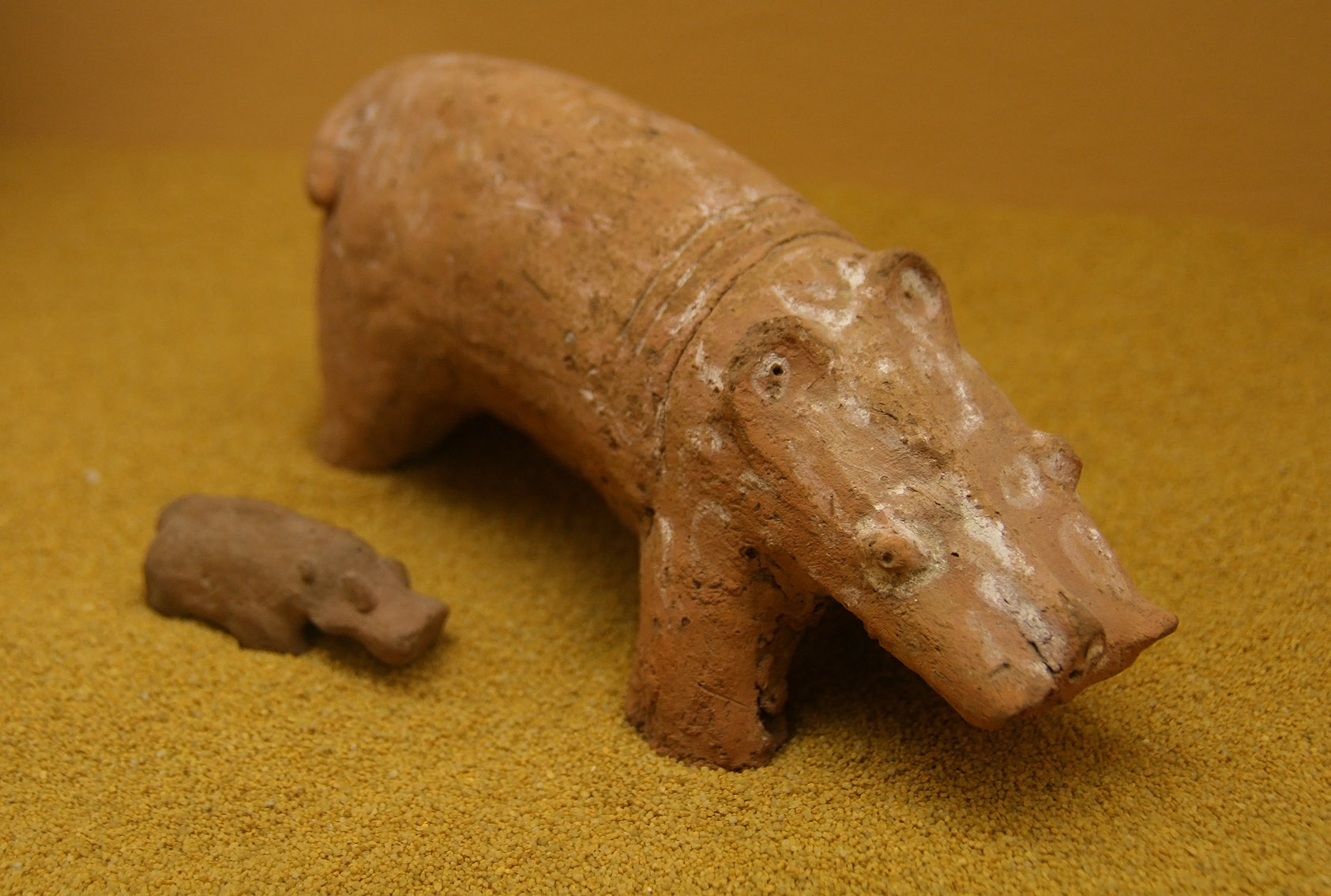 Small statues of Hippopotami, ca. 3200 BC, Naqada II (Staatliche Sammlung für Ägyptische Kunst in Munich).